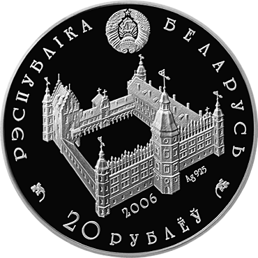 History and Culture of Belarus. Commemorative coins "Sof'ya Galshanskaya (Drutskaya). 600 Year" (Sophia Golshanskaya (Drutskaya). 600 years)